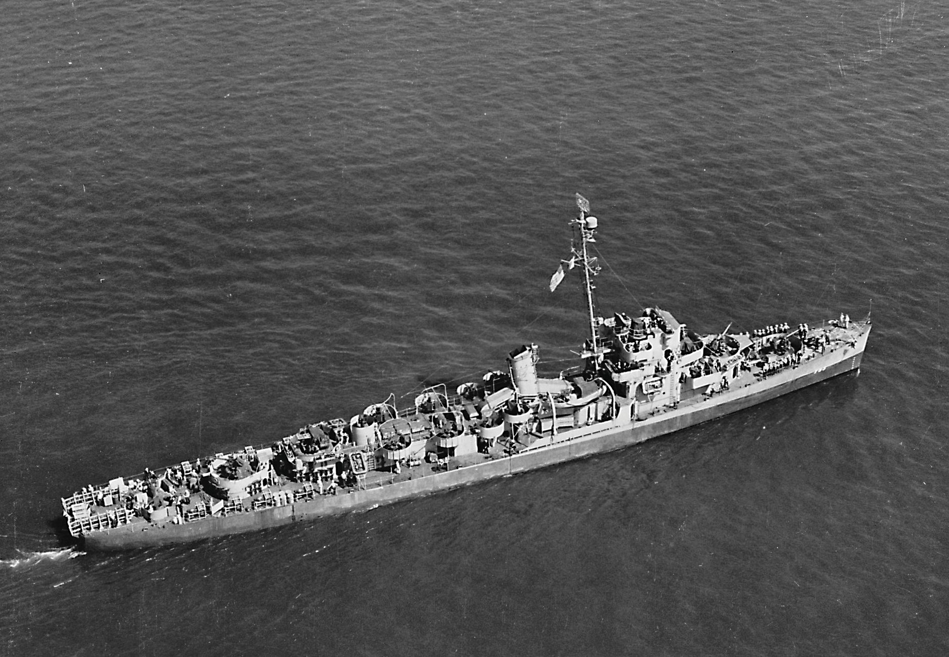 The U.S. Navy destroyer escort USS Runels (DE-793) underway at sea, circa in early 1944.